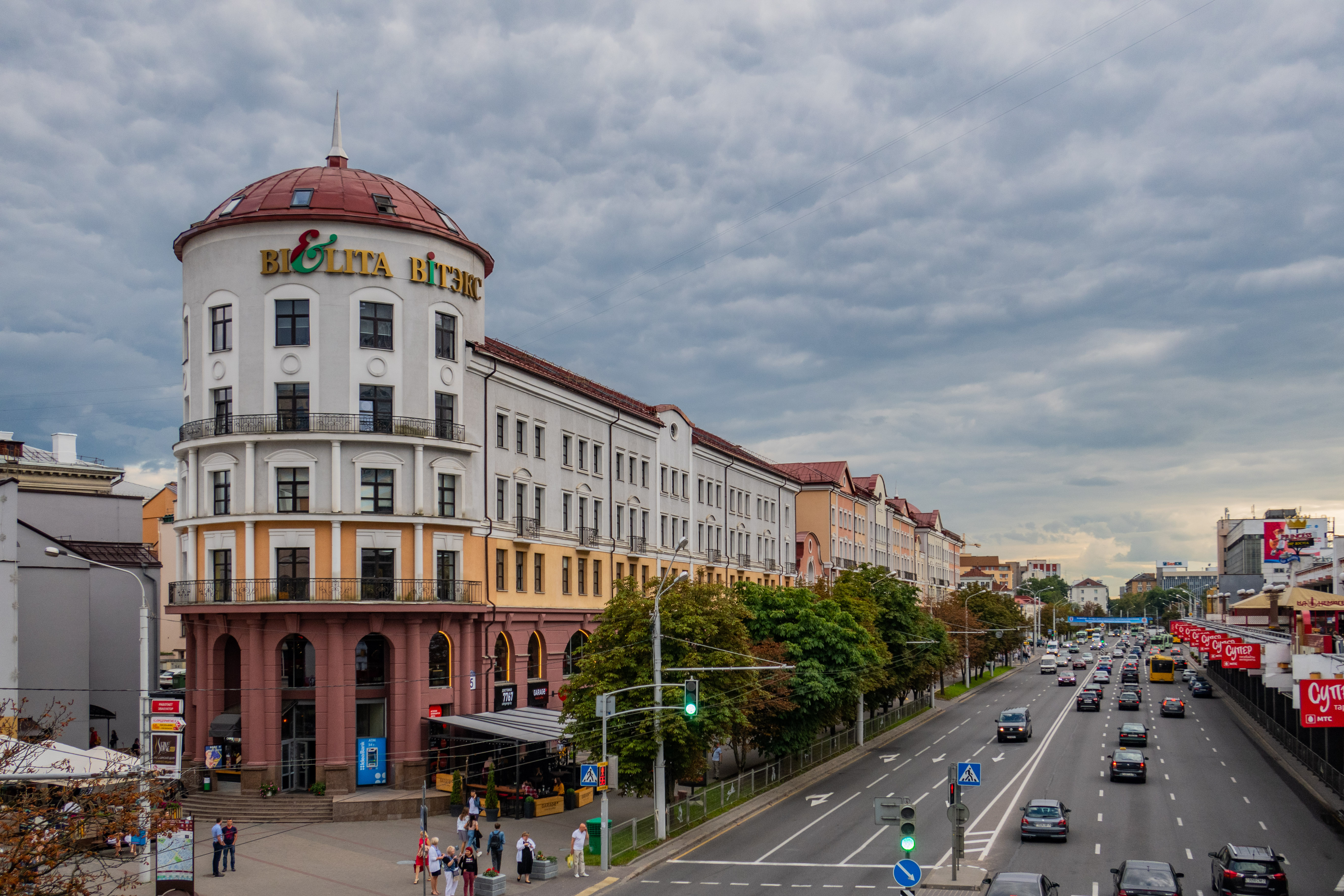 Pseudo-historical remake of Niamhia street. Minsk, Belarus